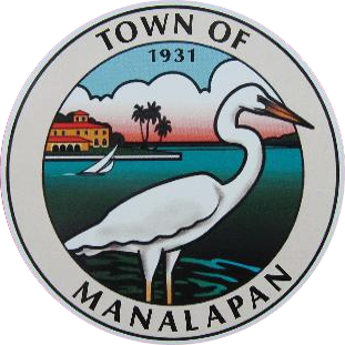 Seal of Manalapan, Florida